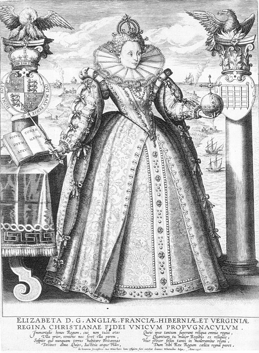 Elizabeth I of England between two imperial columns surmounted by her badges of a Pelican in her Piety and a Phoenix.